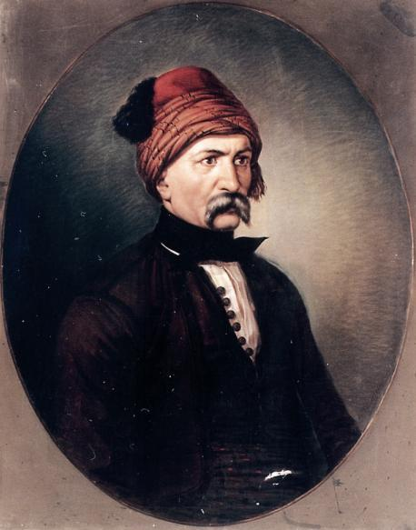 Nikolis Apostolis – (1770 - 1827) Greek Fighter of the 1821 Νικολής Αποστόλης